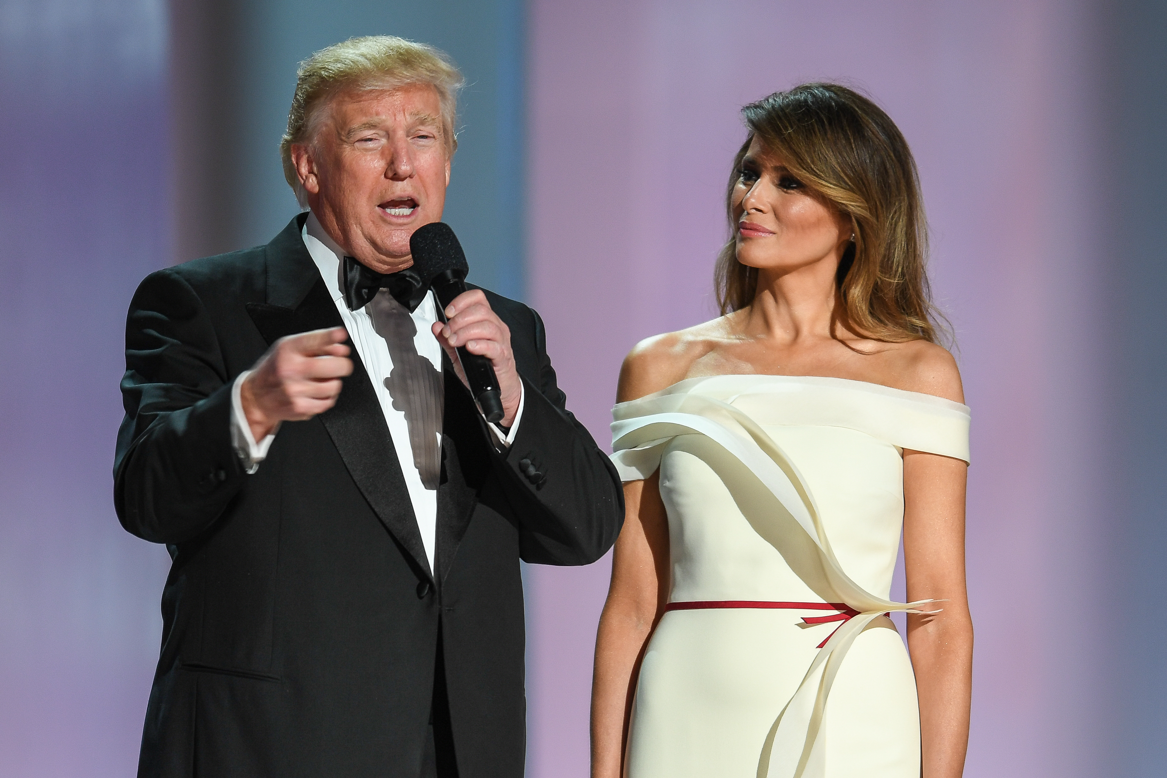 President Donald J. Trump and First Lady Melania Trump address the crowd during the 58th Presidential Inauguration Liberty Ball, Jan. 20, 2017 at the Walter E. Washington Convention Center, Washington D.C. Military personnel assigned to Joint Task Force-National Capital Region provided by the military ceremonial support and Defense Support of Civil Authorities during the inaugural period. (DoD photo by U.S. Army Sgt. Ricky Bowden)